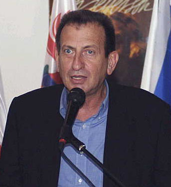 Mr. Ron Huldai, Mayor of Tel Aviv-Yaffo, addresses the audience at the opening of the American Corner Yaffo